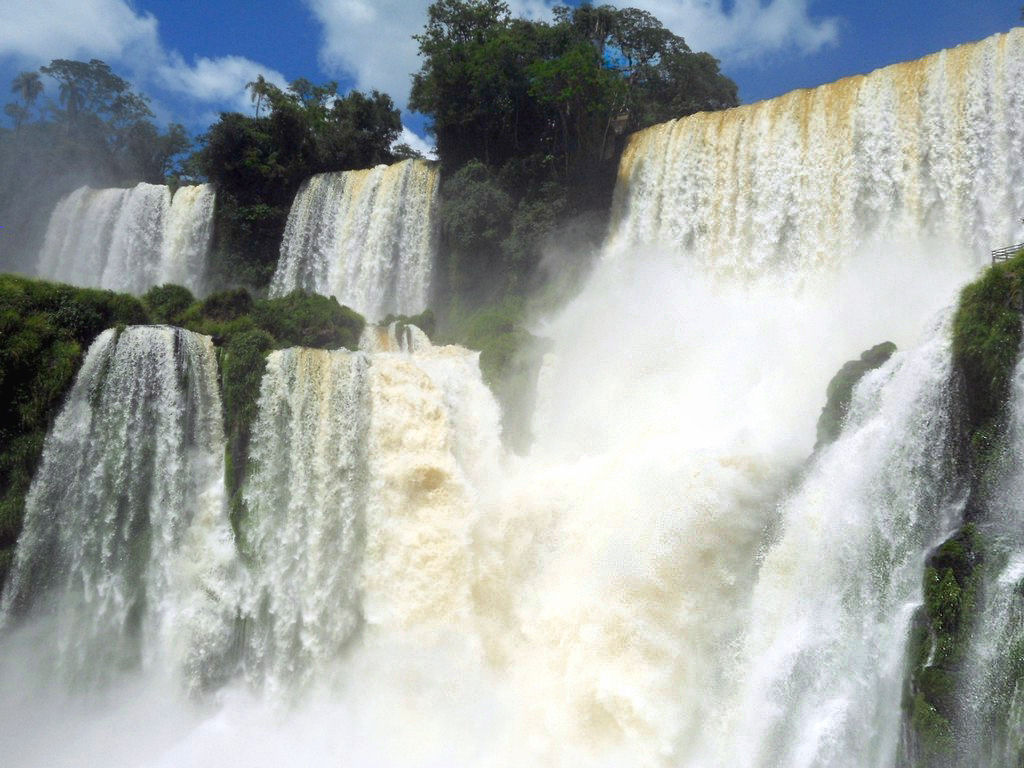 Iguaçu falls